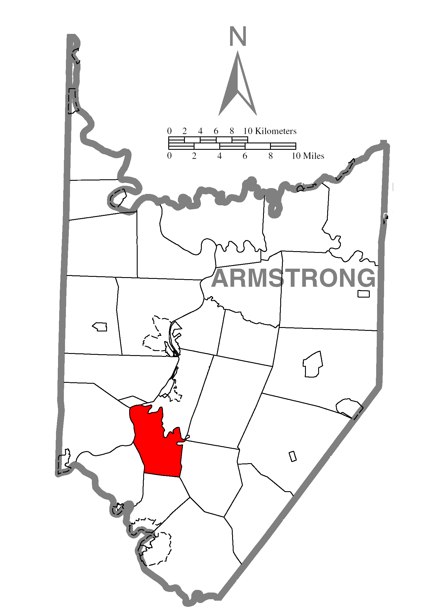 Map of Armstrong County showing Bethel Township highlighted.